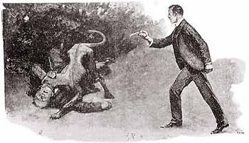 Ilustration of "The Adventure of the Copper Beeches", which appeared in The Strand Magazine in June, 1892. Original caption was RUNNING UP, I BLEW ITS BRAINS OUT.'